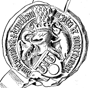 1435-6 Seal of Sir Philip II Courtenay (d.1463) of Powderham, Devon. one of two (the other being that of his contemporary Sir William Bonville) appendant to a deed relating to Wynard's Charity, dated 14 Henry VI (1435-6), preserved among the Exeter City Muniments. Inscription: S(igillum) Ph(ilip)i Courtenay D(o)m(ini) de Poudra(m) & de Petton ("Seal of Philip Courtenay lord of Powderham and of Petton")